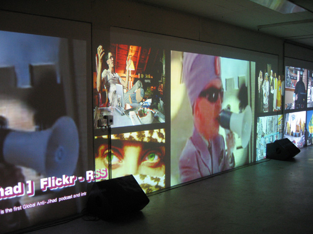 Breaking The News - Be a News-Jockey Interactive Multi Screen Installation